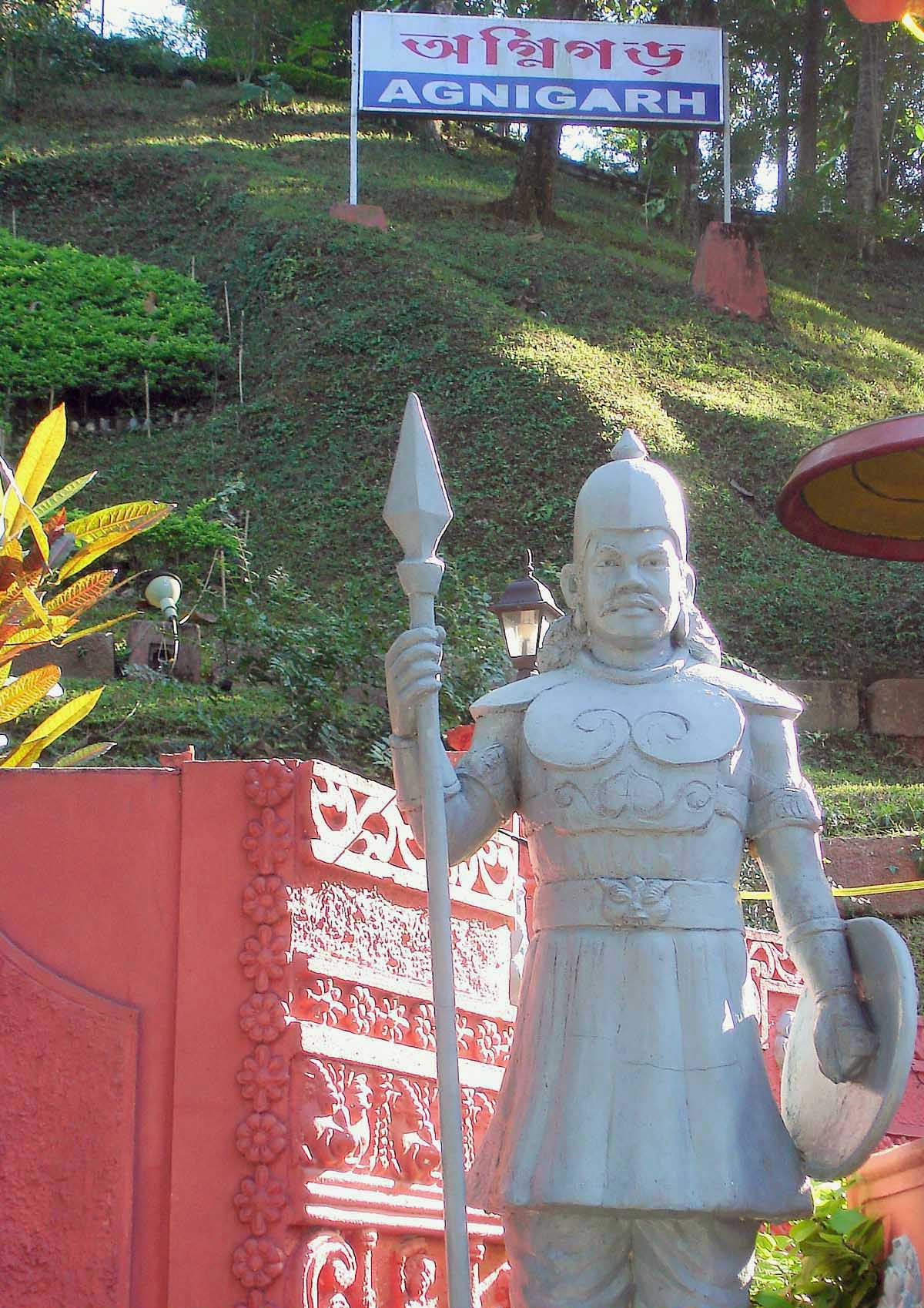 Entrance of Agnigarh Hill at Tezpur.